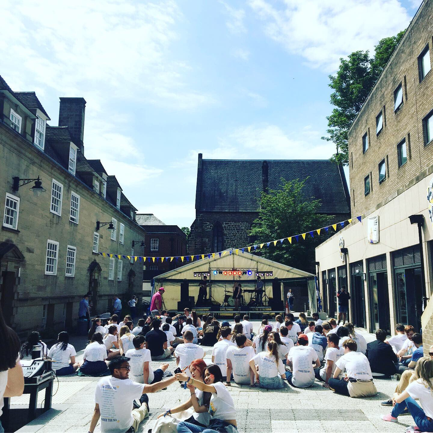 A view of Dunham Court at Hatfield College, Durham